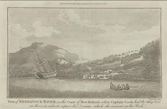 Engraving of Endeavour beached at Endeavour River during Cook's first voyage of exploration. First published in "A new, authentic, and complete collection of voyages round the world: undertaken and performed by royal authority: containing a new, authentic, entertaining, instructive, full, and complete historical account of Captain Cook’s first, second, third, and last voyages, undertaken by order of His present Majesty" page 117, edited by William Anderson, published by Alexander Hogg, 6 Paternoster Rd London (1786)